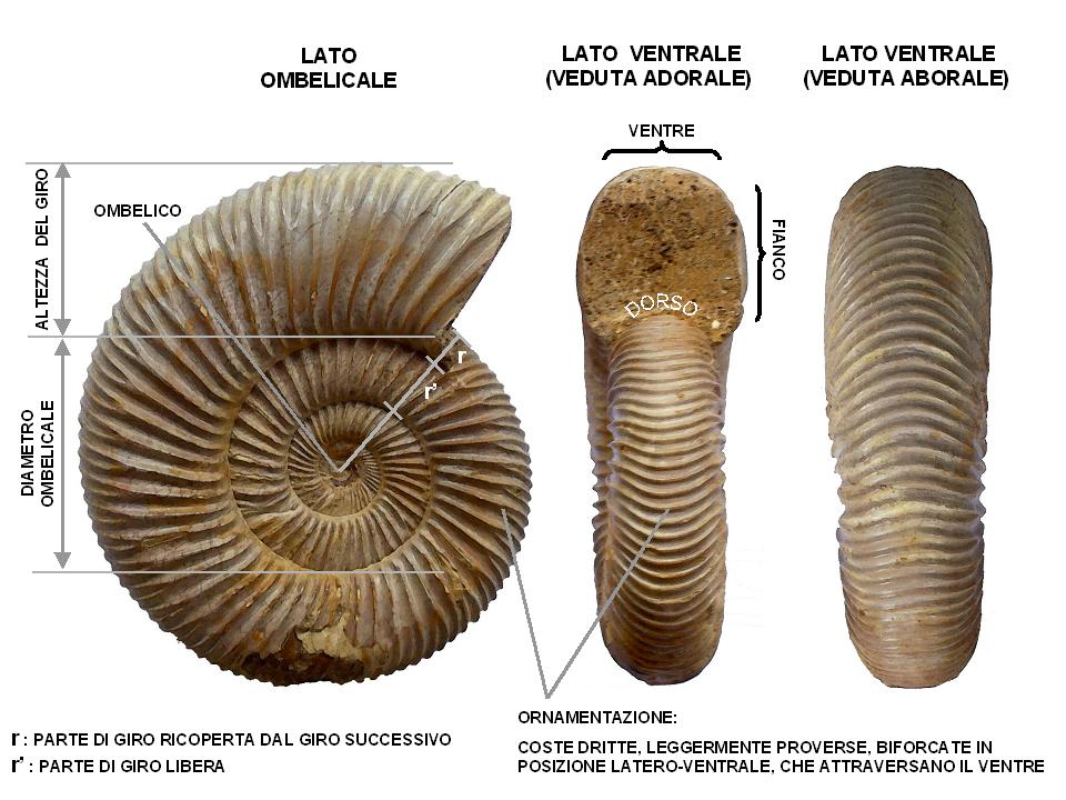 ammonite morphology and technical terminology (genus Perisphinctes, Late Jurassic of Madagascar)